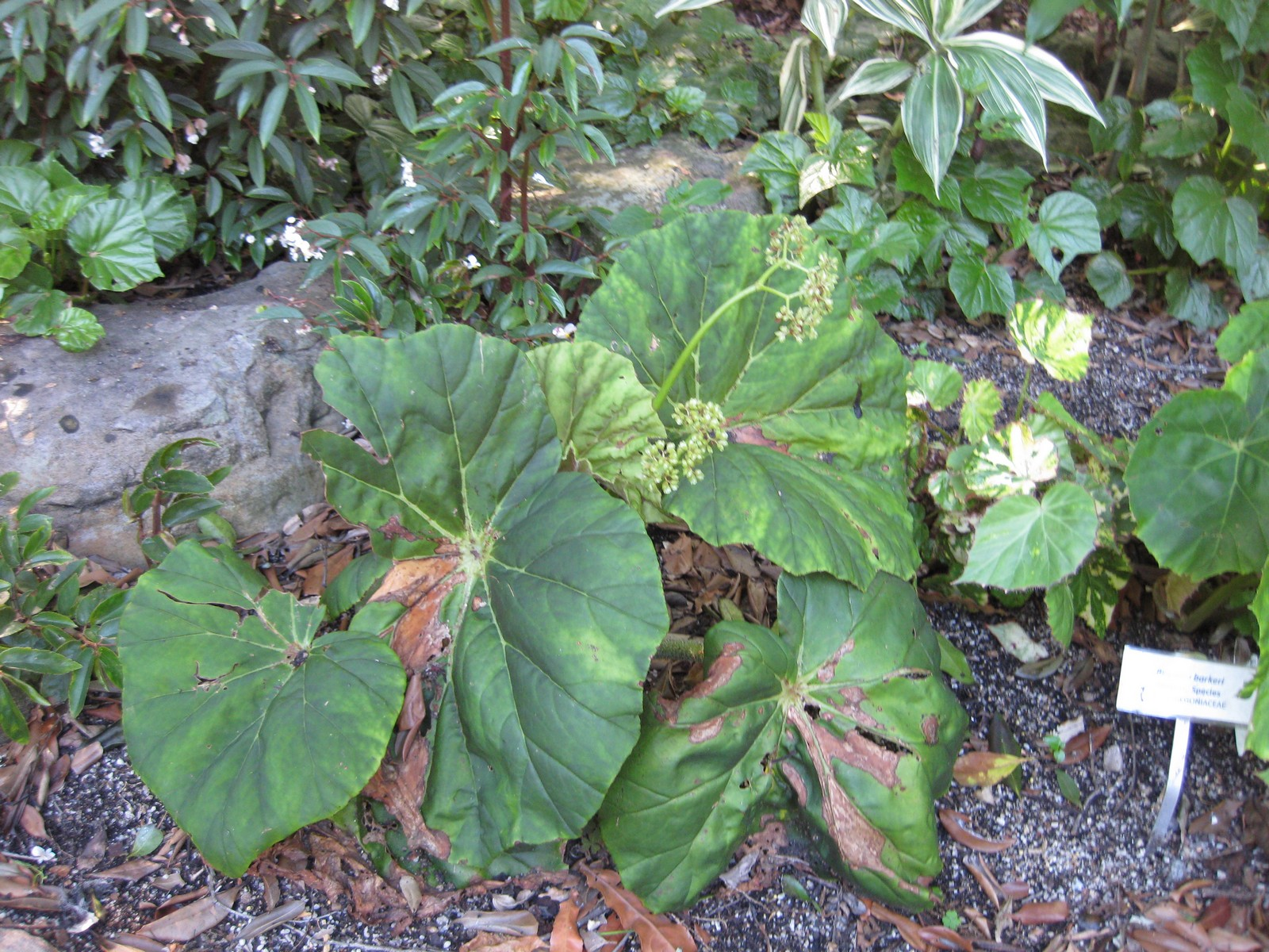 Photographed at the Royal Botanic Gardens Sydney (Australia) in December